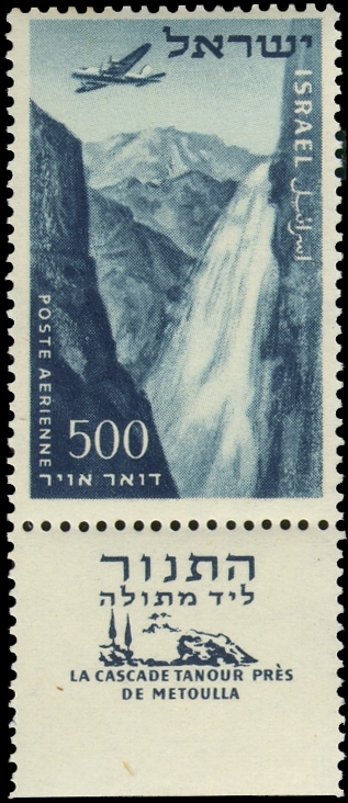 Airmail 1954 stamp- 500 mil, Second definitive series. Inscription on tab: "Hatanur waterfall near Metulla".